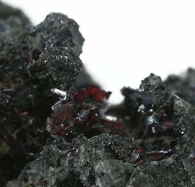 Imiterite, Proustite Locality: Imiter Mine, Boumalne-Dadès, Ouarzazate Province, Souss-Massa-Draâ Region, Morocco (Locality at ) Size: 5.8 x 3.6 x 2.7 cm. This is a rare example of the silver-mercury sulfide discovered at this mine, the type locality. This specimen is loaded with lustrous elongated crystals, sub-mm but rich. Associated are minute bright red proustites, in abundance. A rare, validated example of this species. Ex. Bill Pinch Collection.